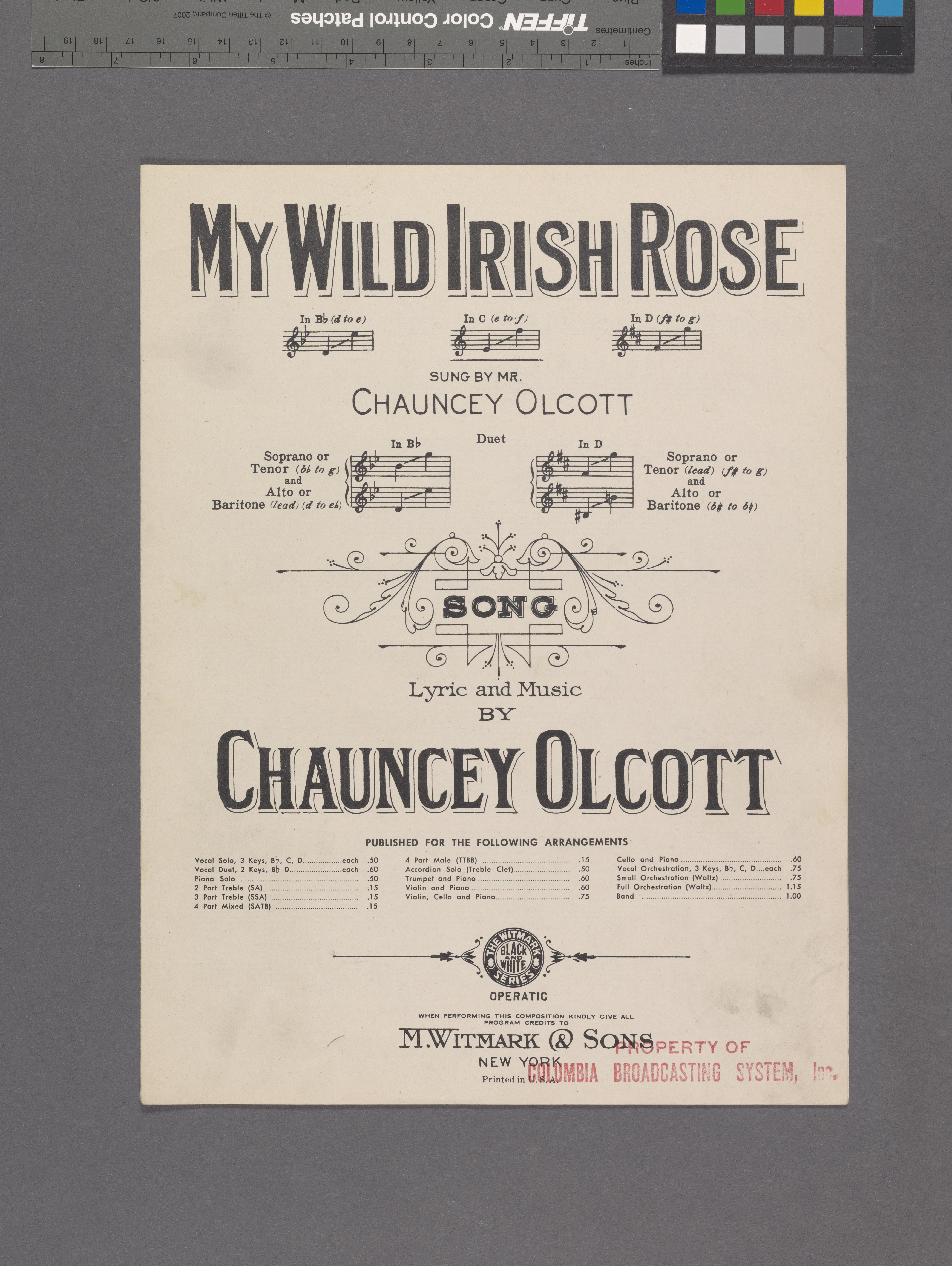 On cover: Sung by Chauncey Olcott. Version in C major. Ownership : Gift of the Columbia Broadcasting System Inc., [1974]. Summary: The narrator sings of his girlfriend, his wild Irish Rose (using metaphors to the flower), who will never desert him; he hopes that she will marry him one day. Statement of responsibility : words and music by Chauncey Olcott.